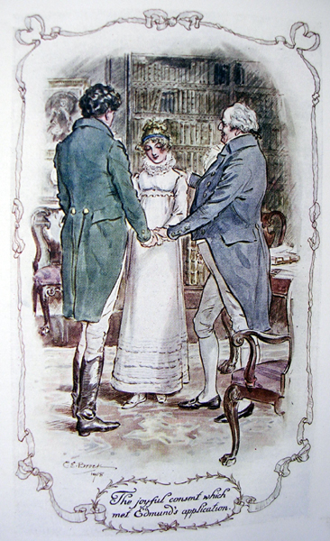 Illustration for ch. 48 of Mansfield Park, in the Series of English Idylls, published by J.M Dent & Co. (London) and E.P. Dutton & Co. (New York). The joyful consent which met Edmund's application.